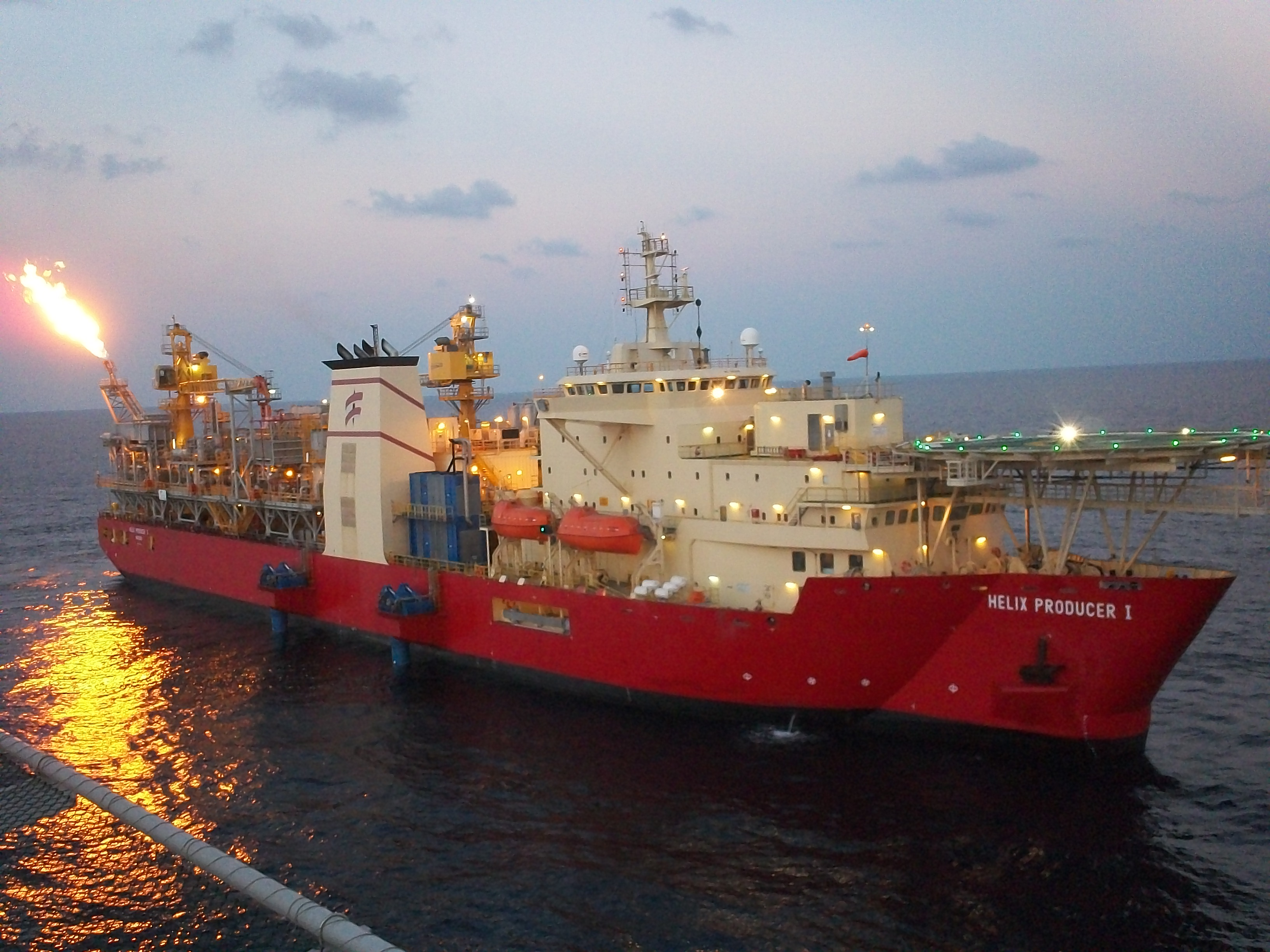 The Helix Producer I (HPI) represents a new concept for developing marginal deepwater fields. As the Gulf of Mexico's first Floating Production Unit (FPU) the HPI can produce and export up to 45,000 bbls per day of oil, 60,000 bbls per day of liquids and 80,000 mcf per day of gas. The HPI is also a critcal component of the Helix Fast Response System which is a subsea oil spill response program based on Helix ESG's experience at the Macondo well in 2010.